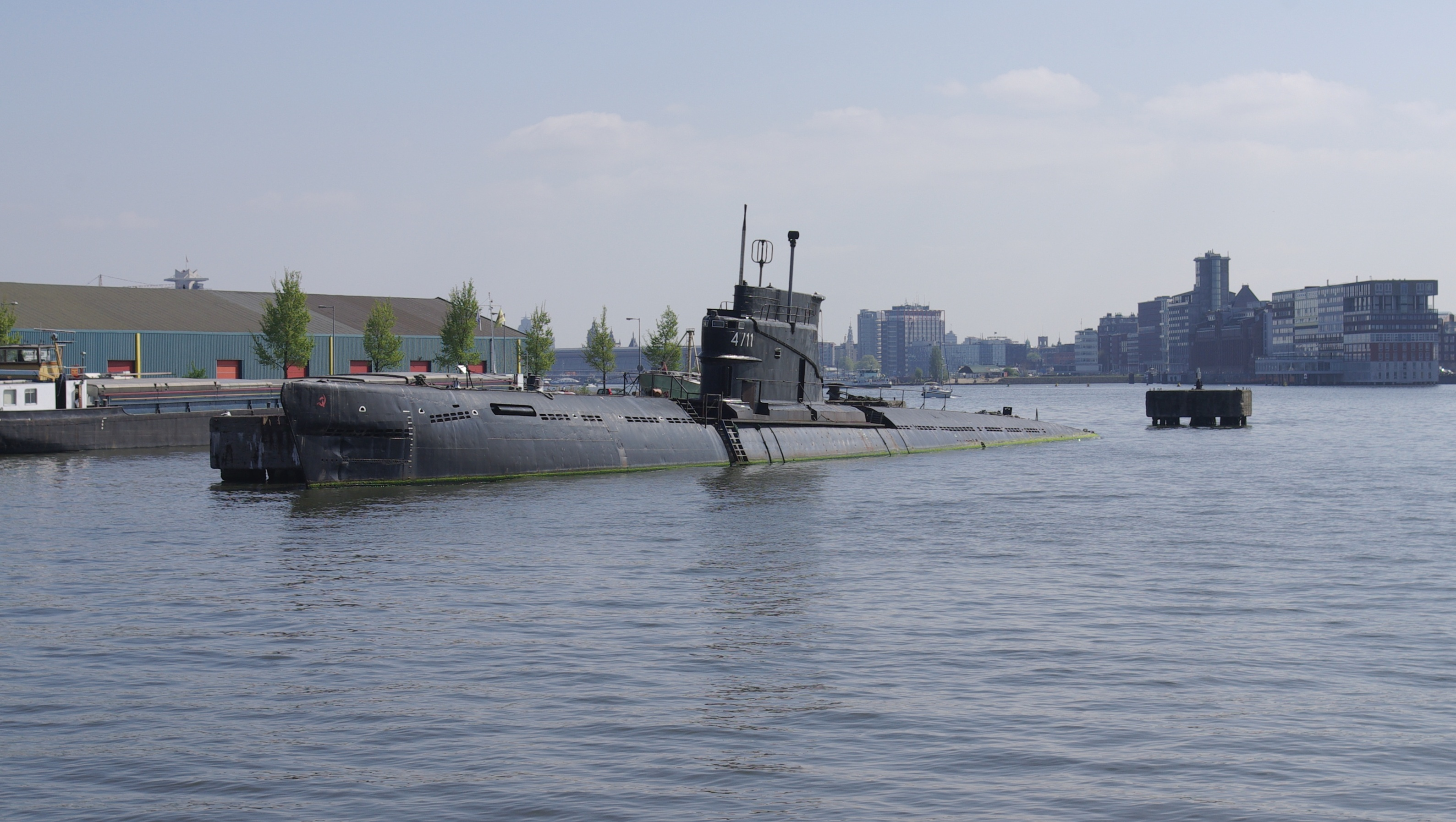 A Soviet submarine (Zulu Class Submarine, project 611) in the IJ, near the NDSM docks in Amsterdam, the Netherlands